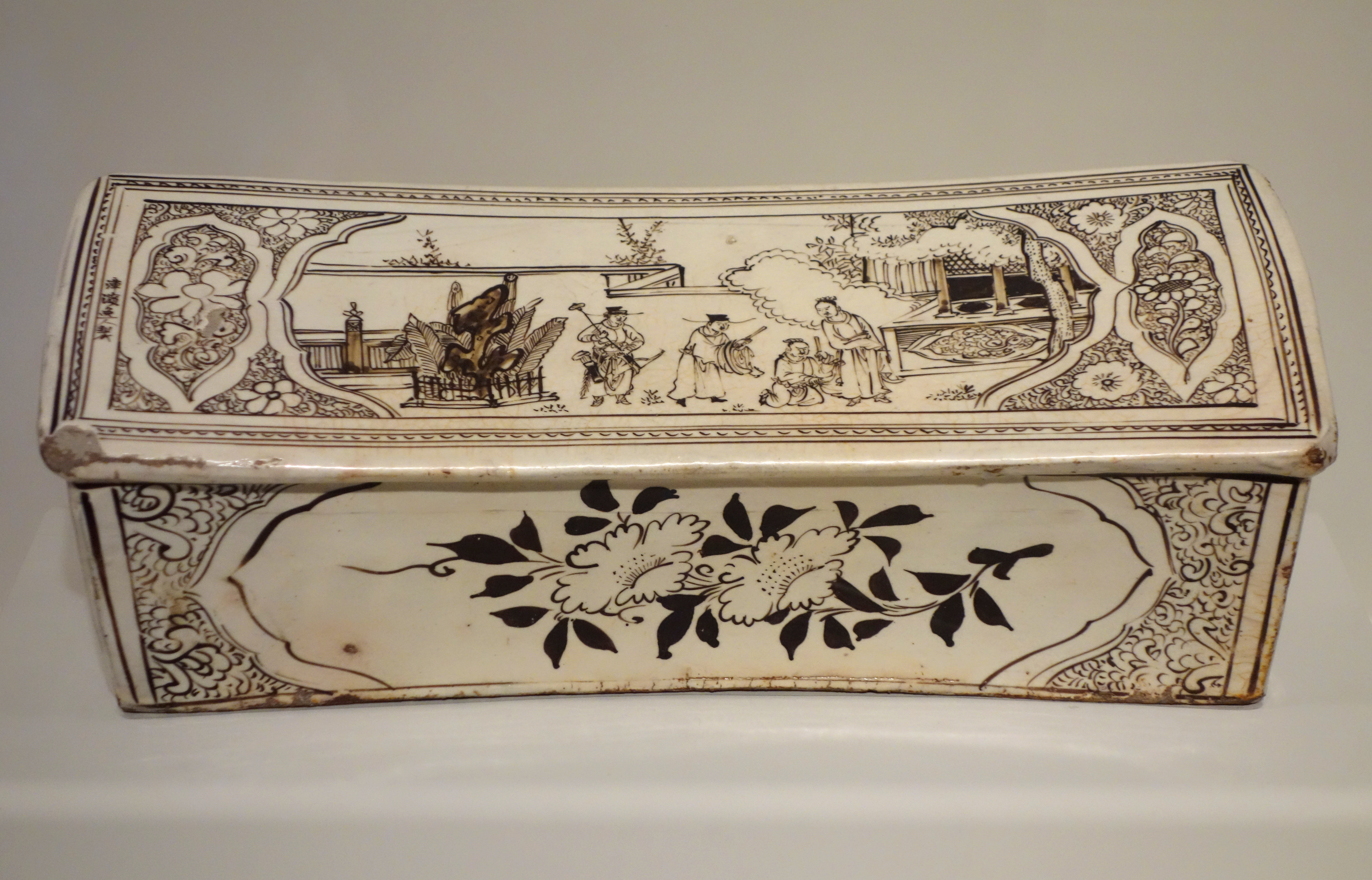 Exhibit in the Cincinnati Art Museum, Cincinnati, Ohio, USA. This artwork is in the public domain because the artist died more than 70 years ago.